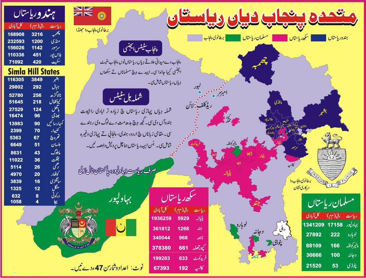 پنجابی: Map of States of British Punjab